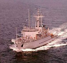 The American Osprey-class minehunter USS Osprey